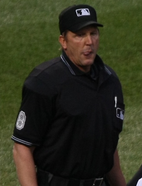 MLB umpire Jeff Kellogg - June 16, 2009.